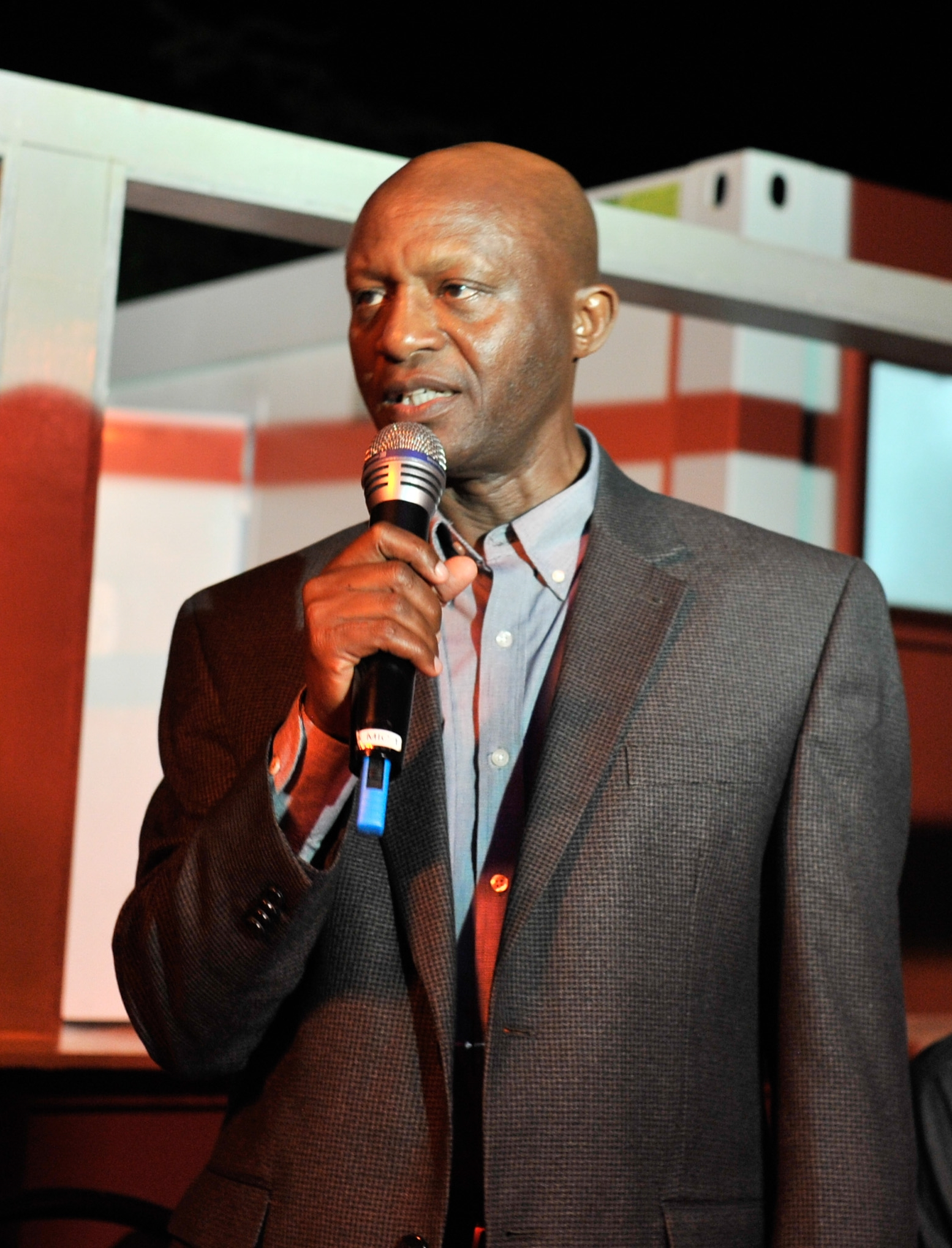 Uganda's Ambassador to Somalia, Nathan Mugisha, speaks during formal farewell ceremony in Mogadishu for the outgoing Ugandan contingent commander, Brig. Gen. Sam Kavuma, who has concluded his tour of duty in Mogadishu, Somalia, on November 29, 2015.